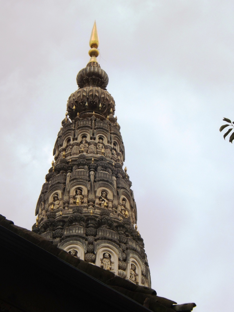 Picture taken during Wikipedia takes Pune photo walk